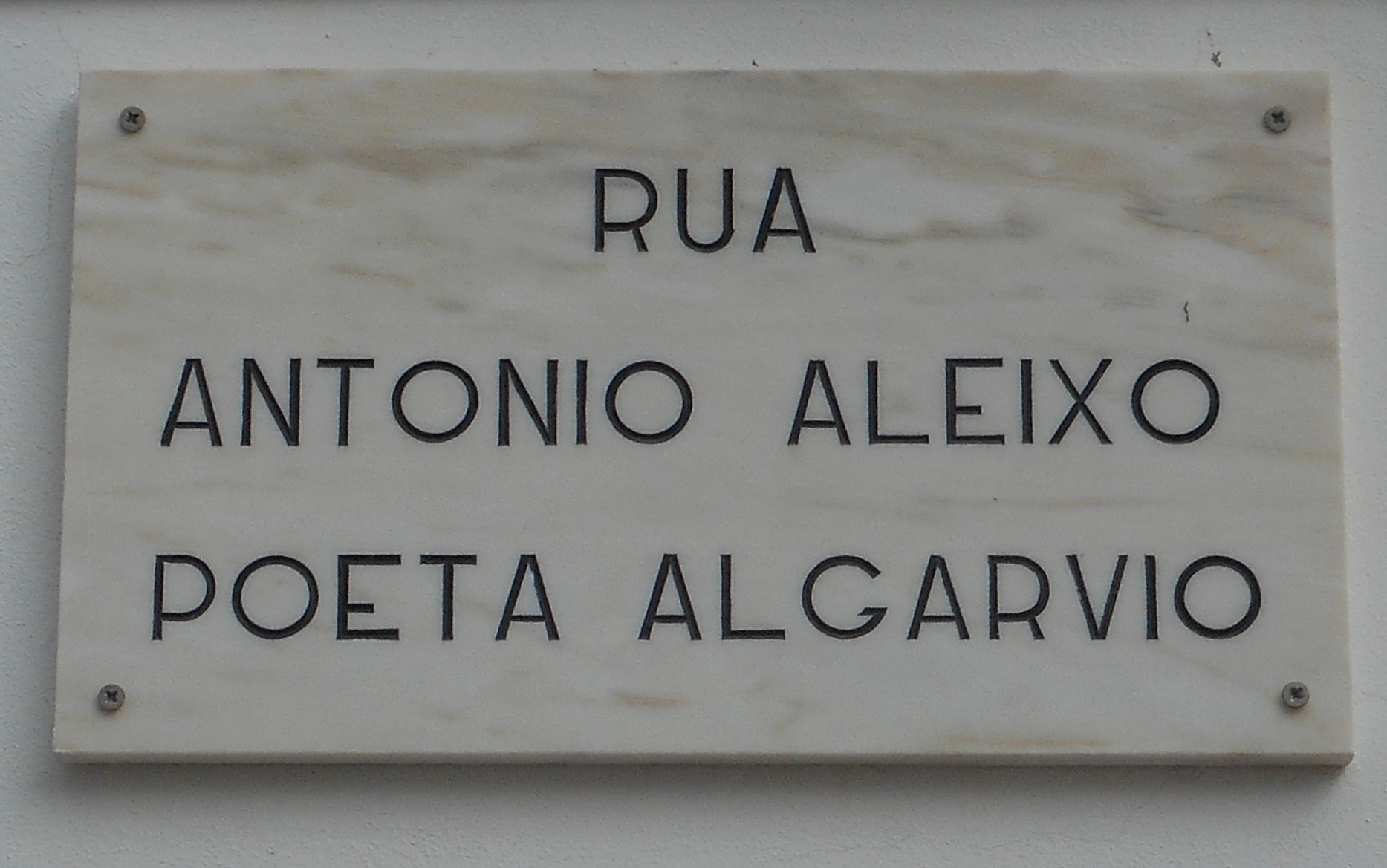 Marbel street sign designating the Rua António Aleixo, in the village of Paderne, Albufeira, Algarve, Portugal.